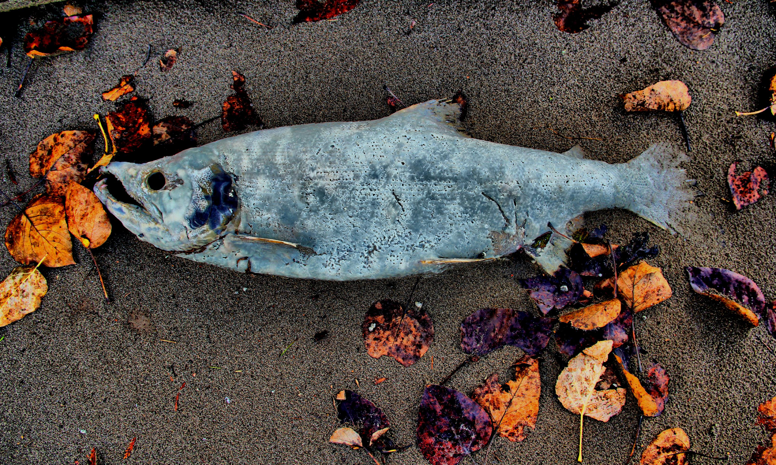 The mightly salmon as found along the Fraser River in BC. They come inland from the salty sea to spawn in the fresh waters then die on the shore by the thousands. This fish was a meter long.